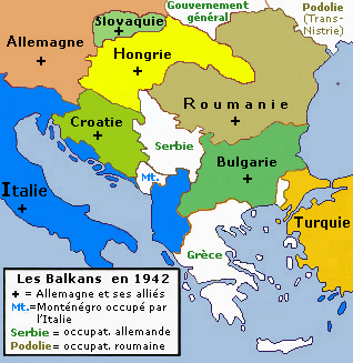 Historic map of the Balkan peninsula, 1942